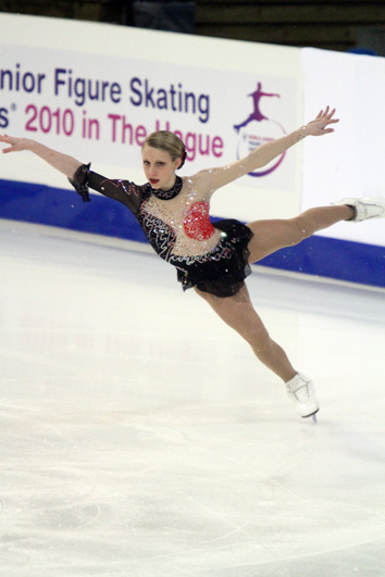 2010 World Junior Figure Skating Championships - Agnes Zawadzki